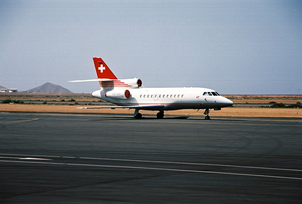 Swiss registered aircraft Falcon 900 photographed in Sal Island, Cape Verde